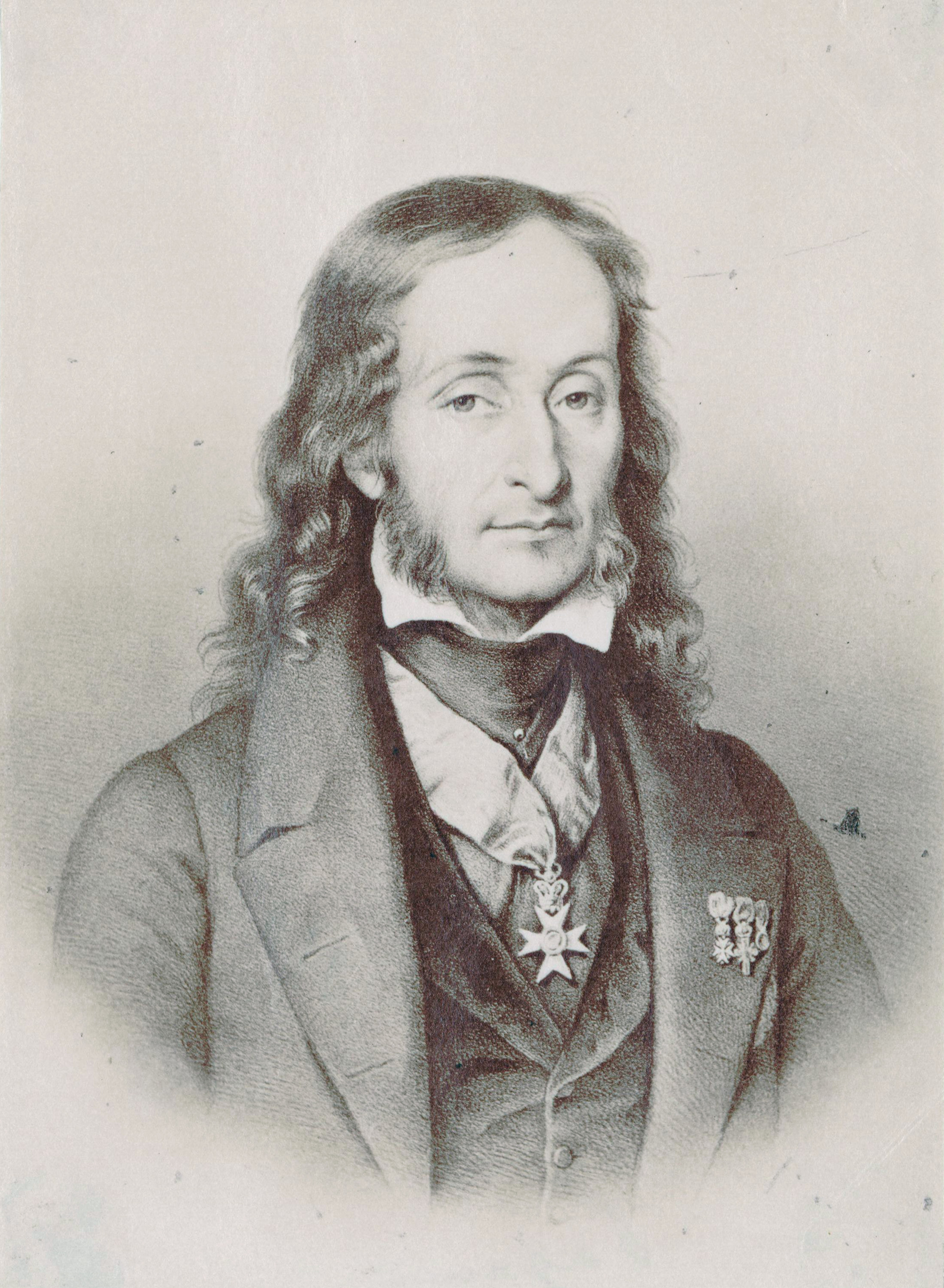 Niccolo Paganini